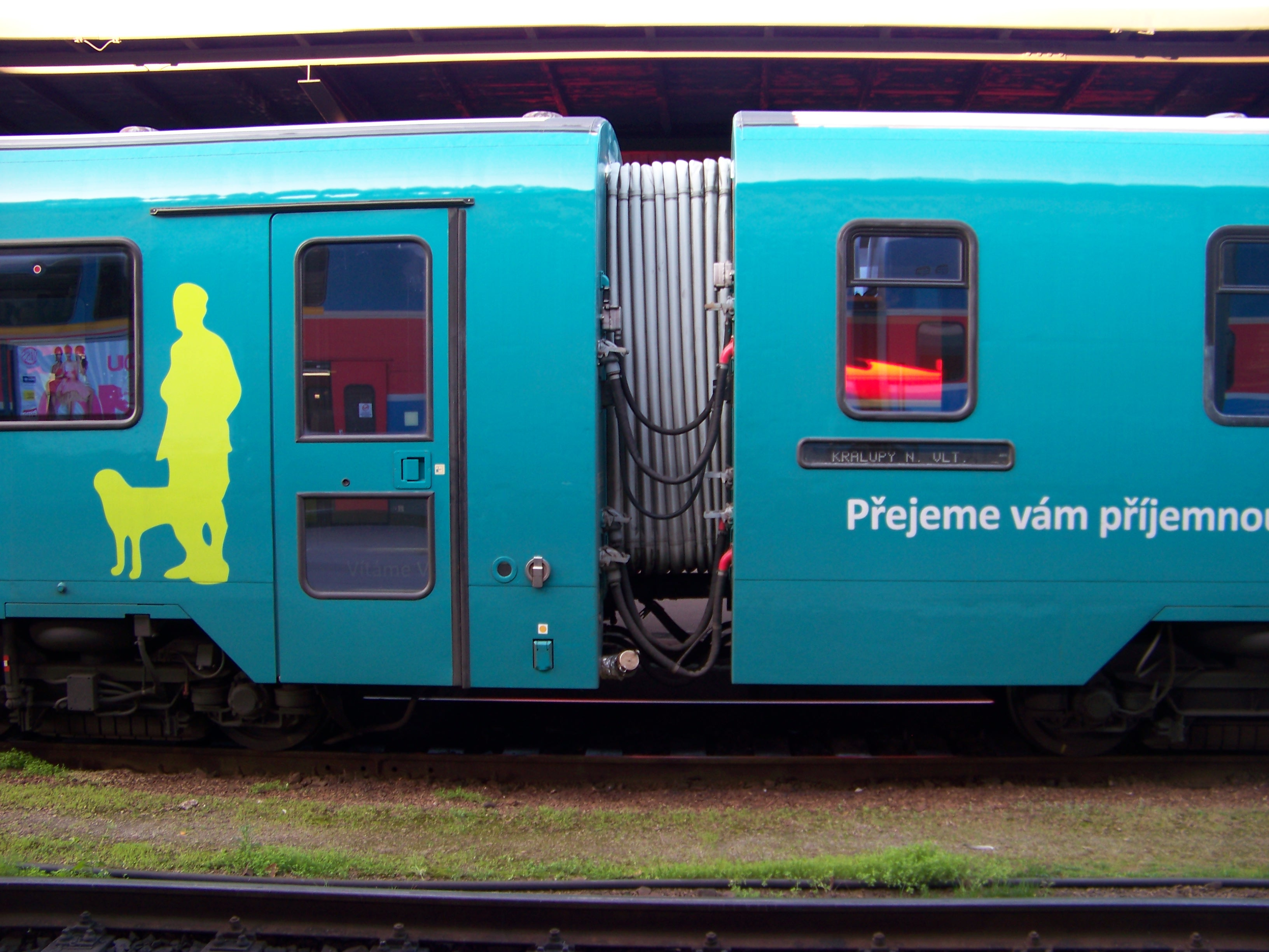 Prague-New Town. Masaryk Station, a motor unit 845 of Arriva vlaky.